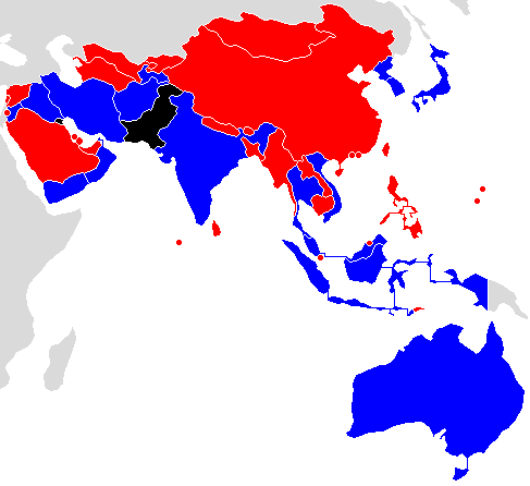 map